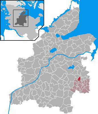 Locator maps of municipalities in Schleswig-Holstein - District Rendsburg-Eckernförde